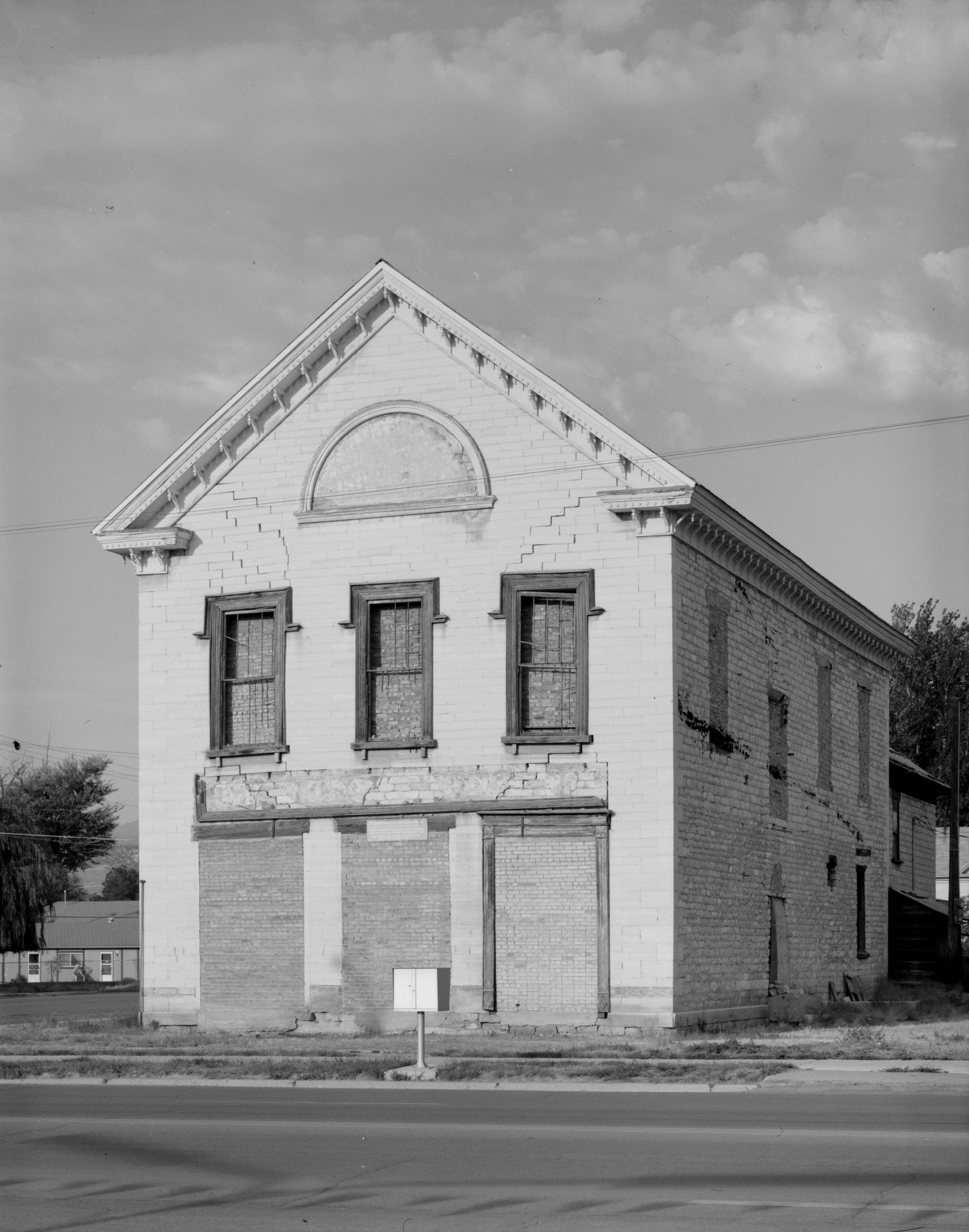 Front of the Ephraim United Order Cooperative Building, located at the intersection of Main and 1st North Streets in Ephraim, Utah, United States. Built in 1871, it is listed on the National Register of Historic Places.